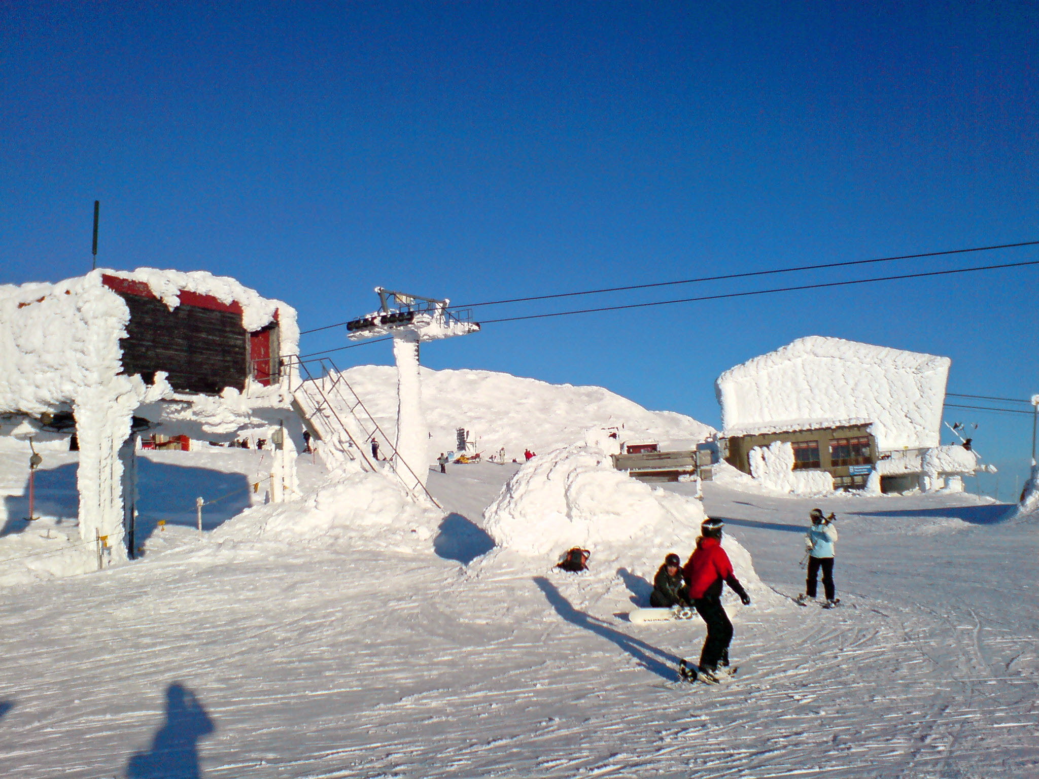 Top of the liftsystem in Åre